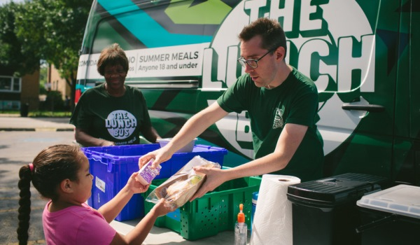 This is a picture of another one of the Greater Chicago Food Depository's mobile programs called the lunch bus. The lunch bus delivers food to children who are eligible for free or reduced lunches throughout the school year and during the summer. The meal they provide consists of sandwiches and milk for the children.